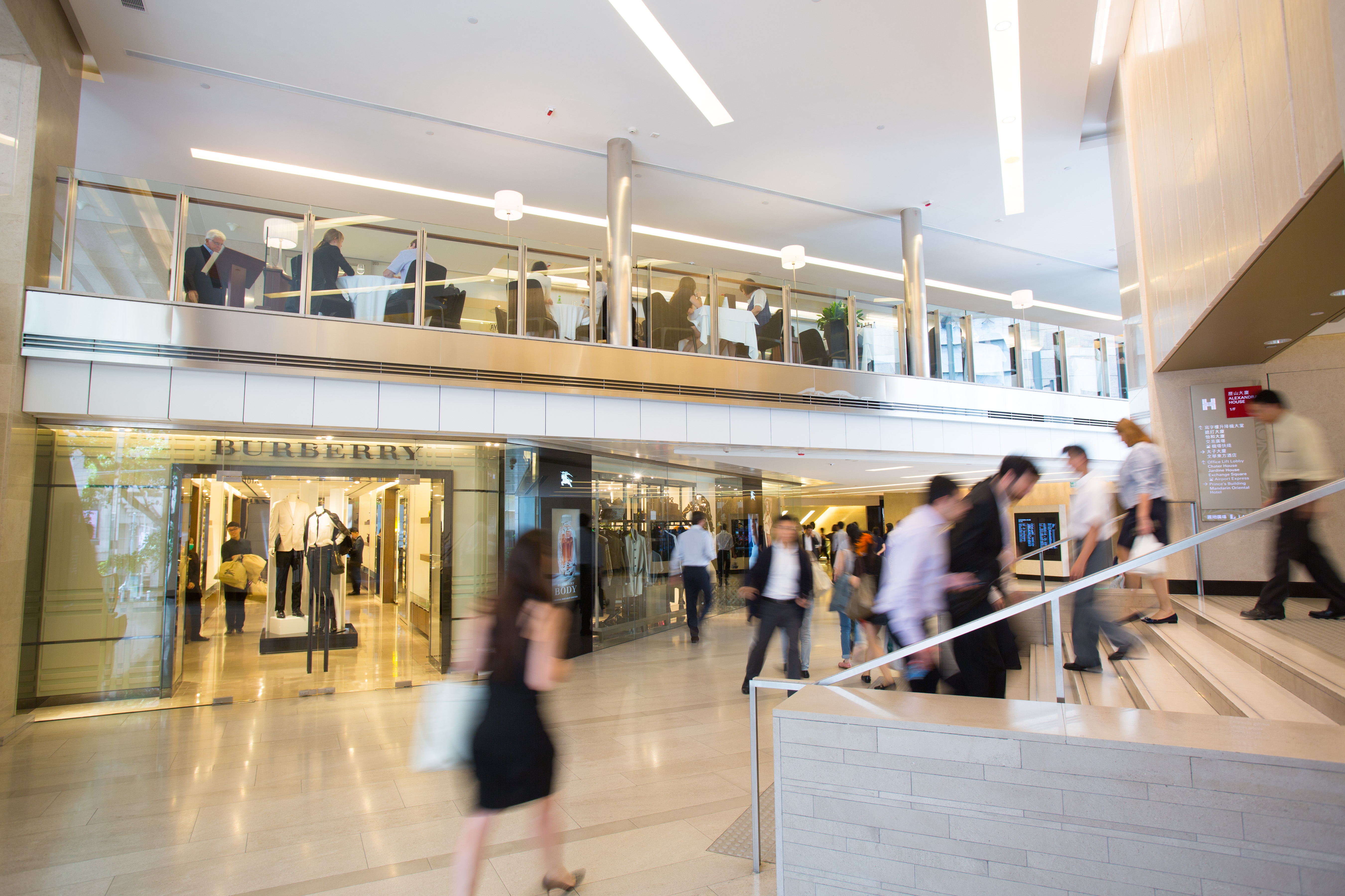 Inside the Alexandra House